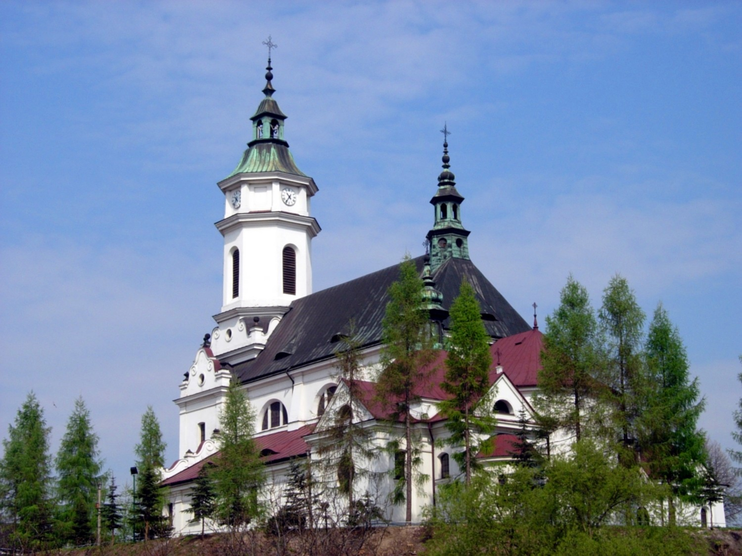 St. Michael Church in Ostrowiec Świętokrzyski